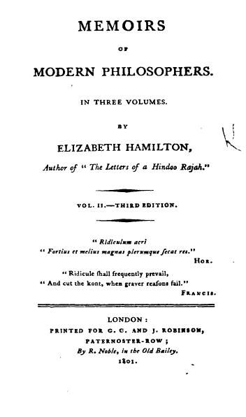 Hamilton, Elizabeth. Memoirs of modern philosophers. Vol. 2. 3rd ed. London, 1801.